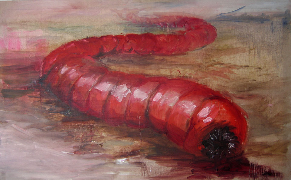 This is an image for the article about the Allghoi Khorkhoi